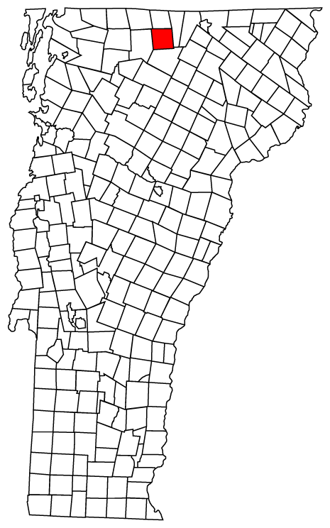 Map of Vermont towns with Westfield highlighted